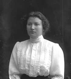 Sarah Aaronsohn